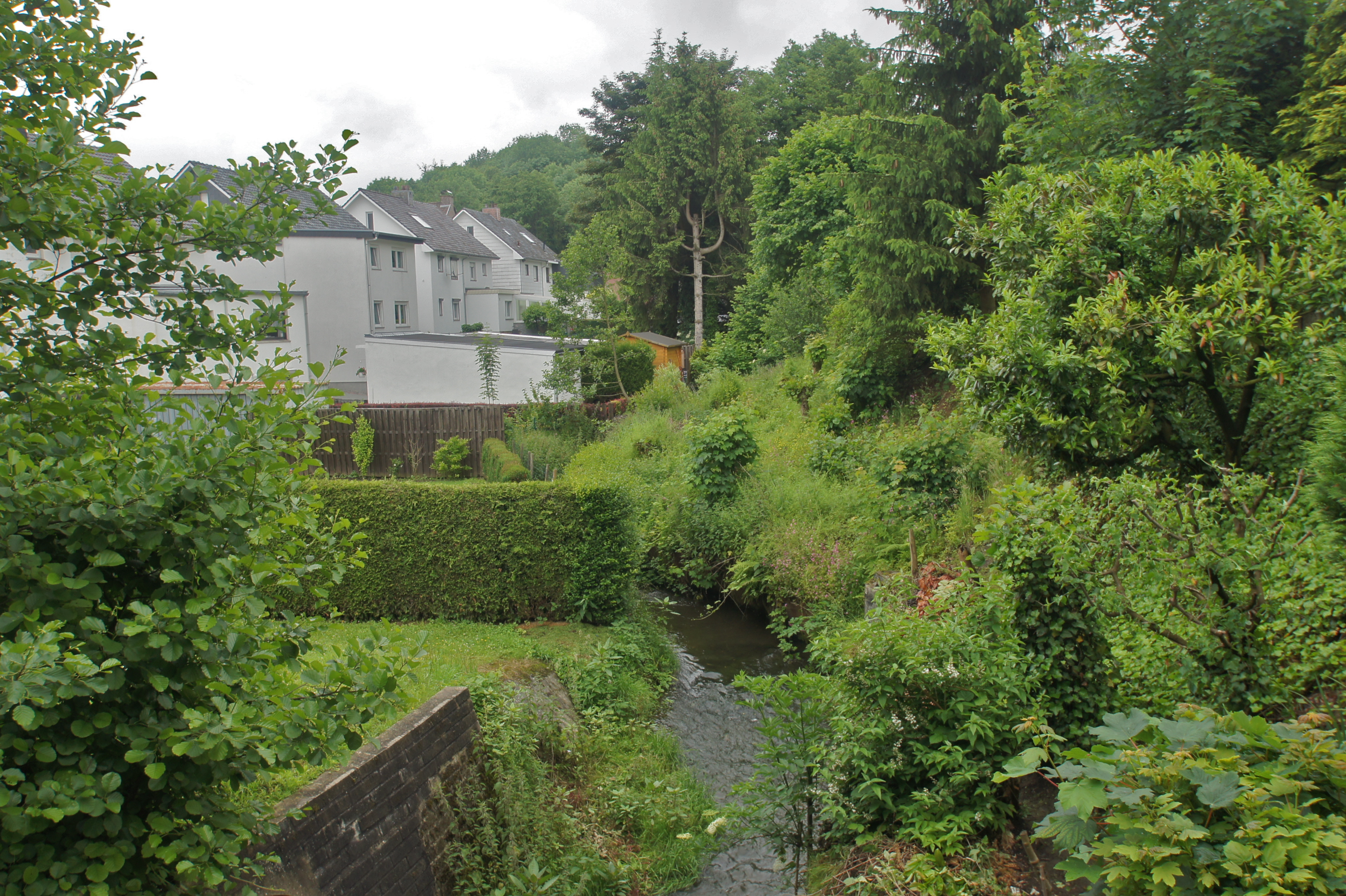 Kelmis (Neu-Moresnet), Belgium: The river Tüljebach at the Altenbergstraat